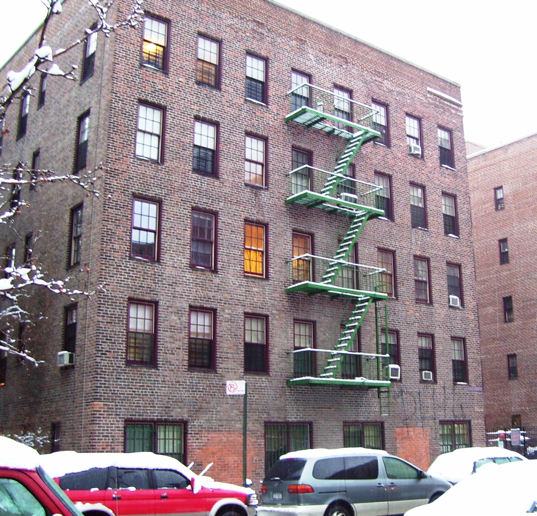 A closeup of one of the units of First Houses on East 3rd Street between First Avenue and Avenue A in the East Village neighborhood of Manhattan, New York City, seen during the seventh snowstorm of the 2010-2011 season.